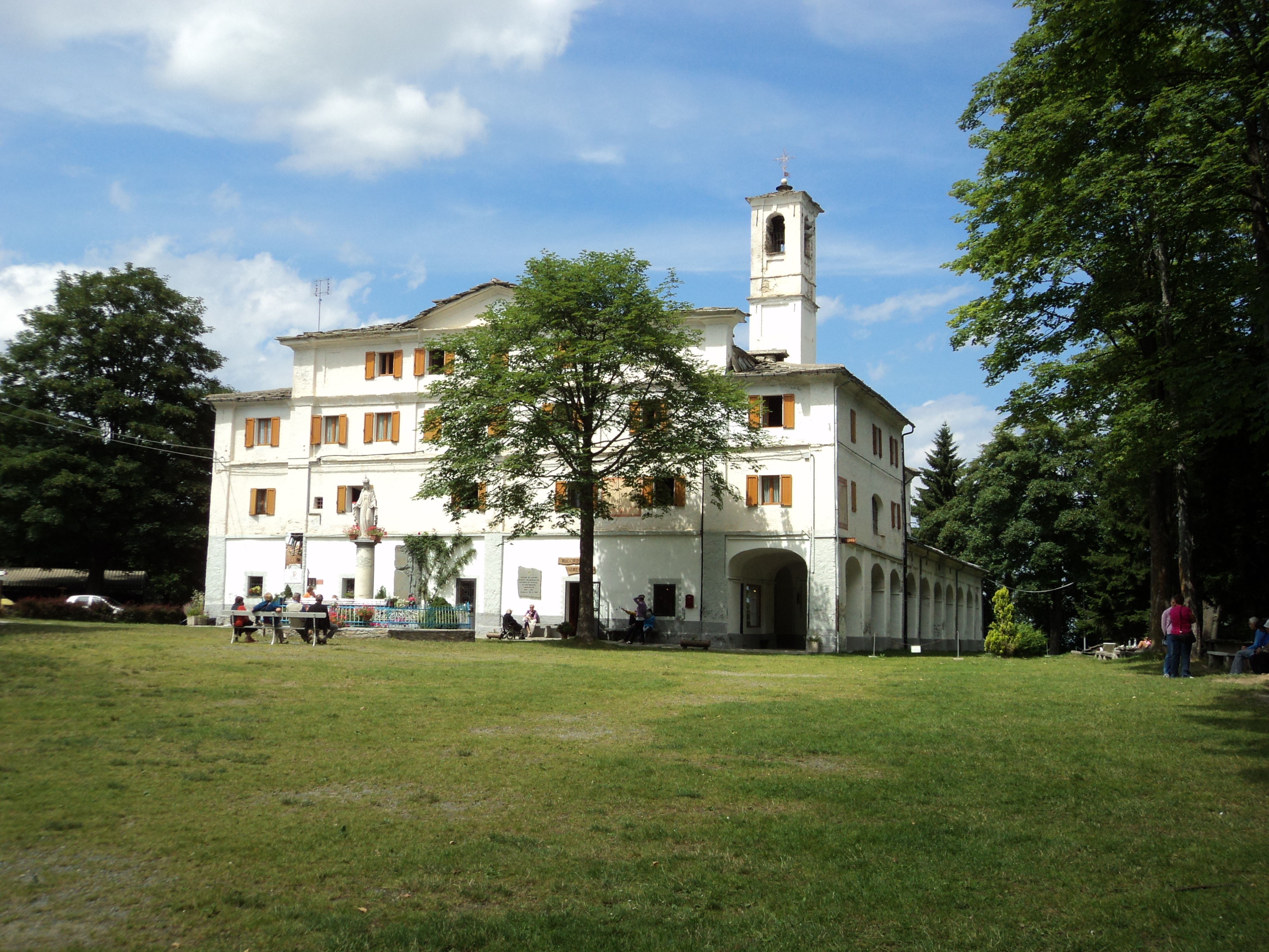 Valmala Sanctuary (CN, Italy)